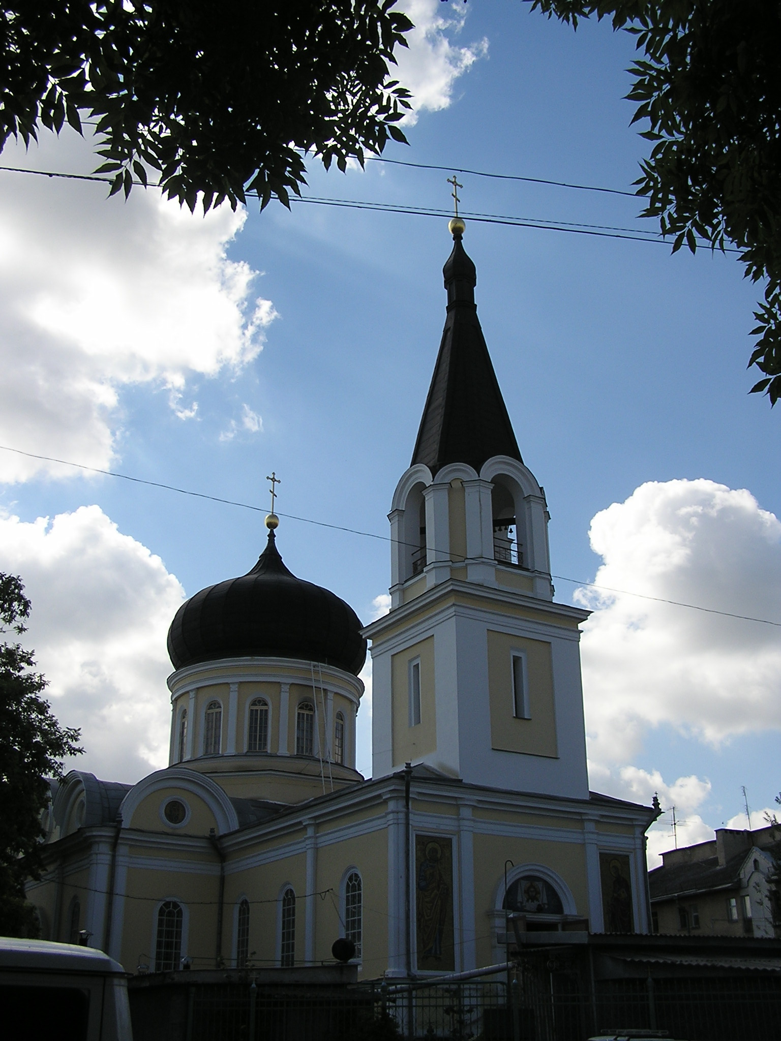 Simferopol - Saints Peter and Paul church.